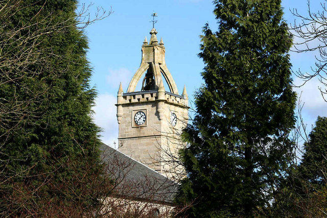 The church tower of East Kilbride's parish church, South Lanarkshire, Scotland.